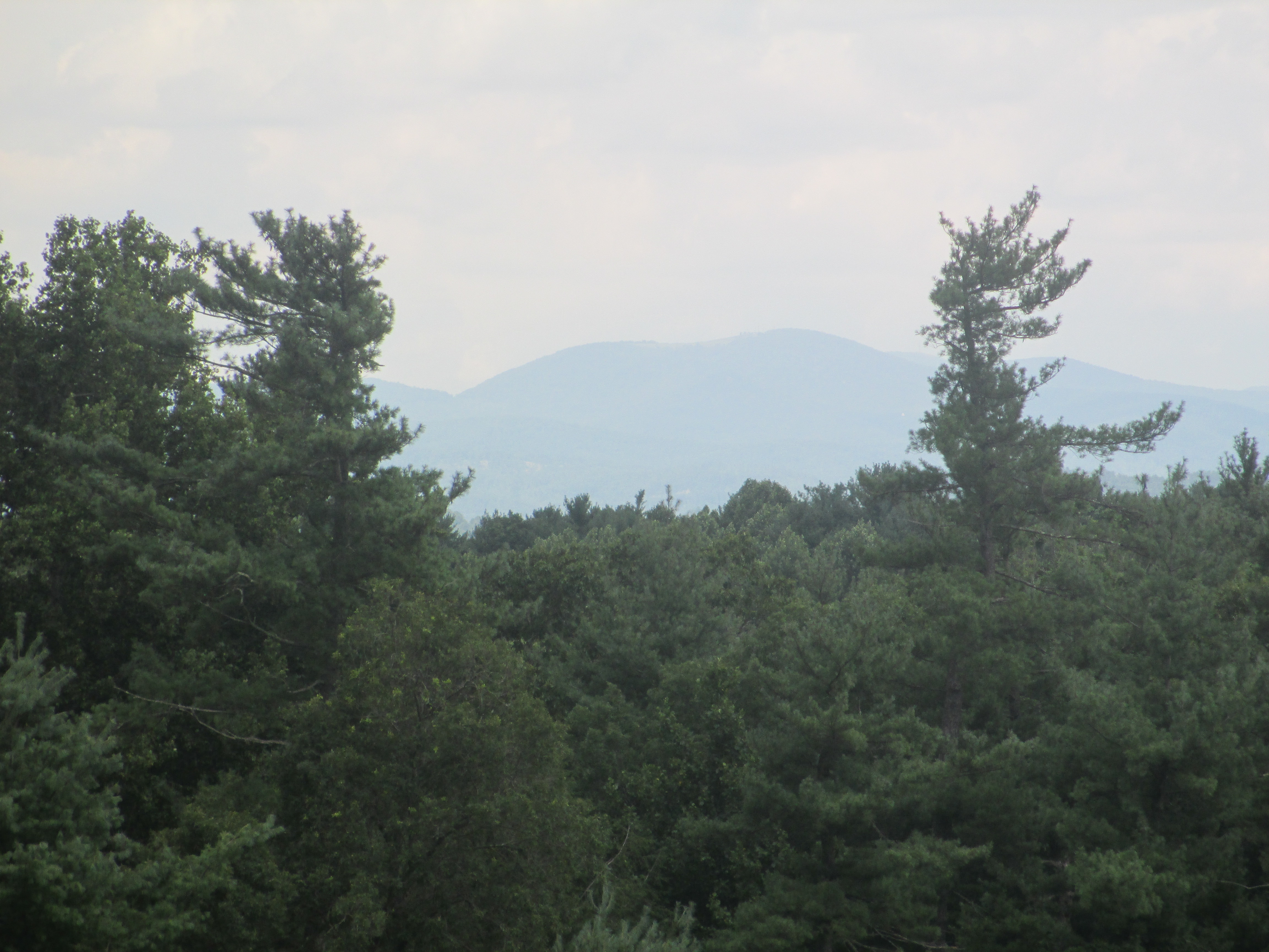 I took photo of mountain view from Carl Sandburg's house, with Canon camera.